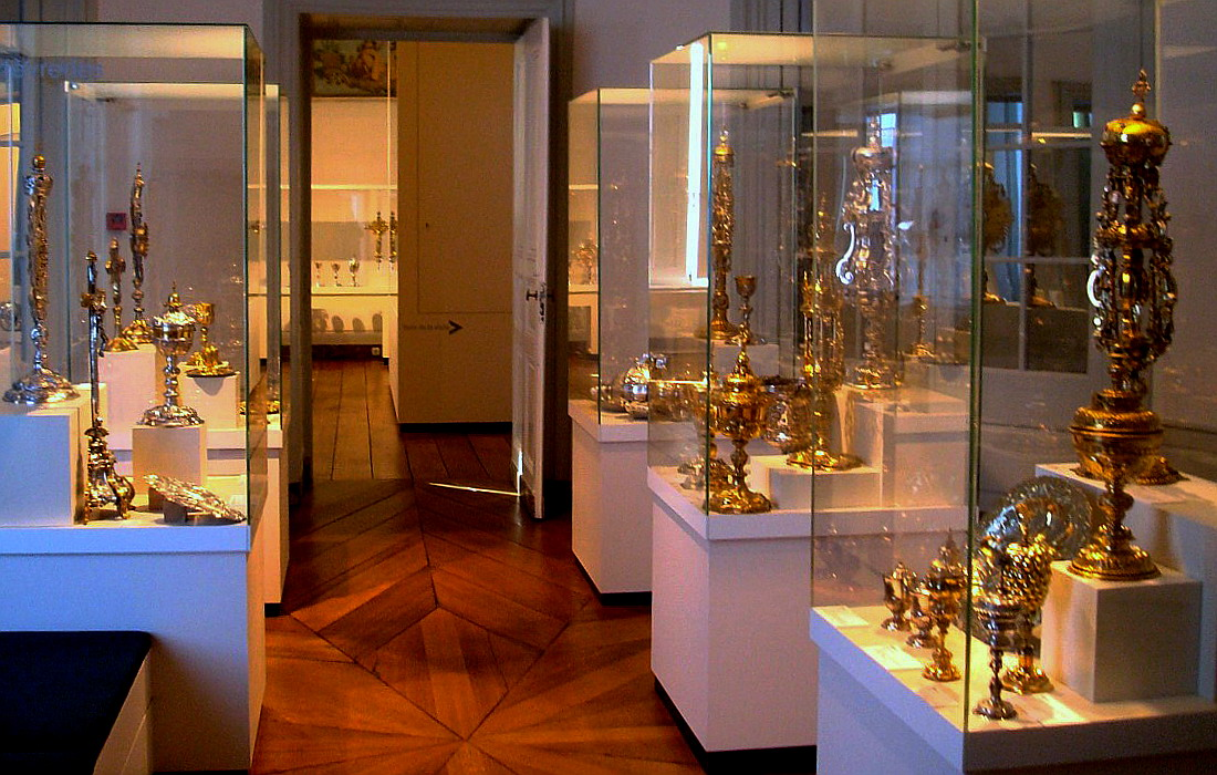 Liège, Belgium. Room in Museum Grand Curtius with religious silverware.